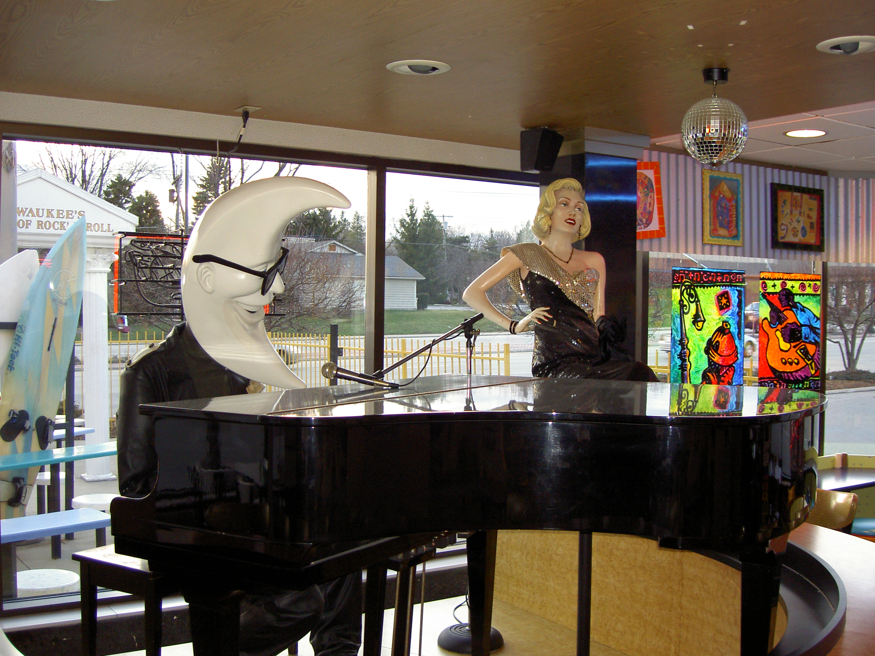 Solid Gold McDonald's in Greendfield, Wisconsin.